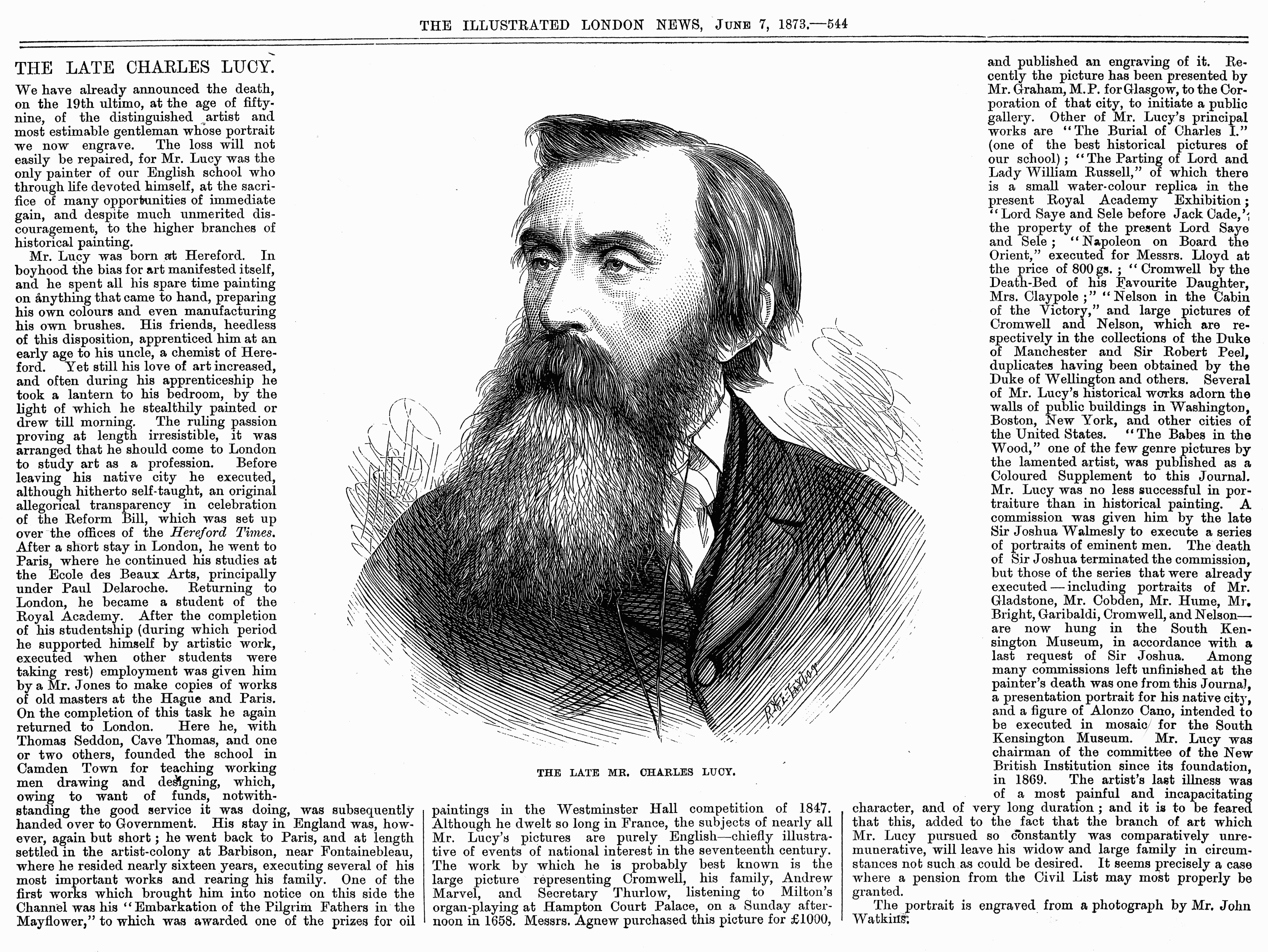 Obituary of Charles Lucy